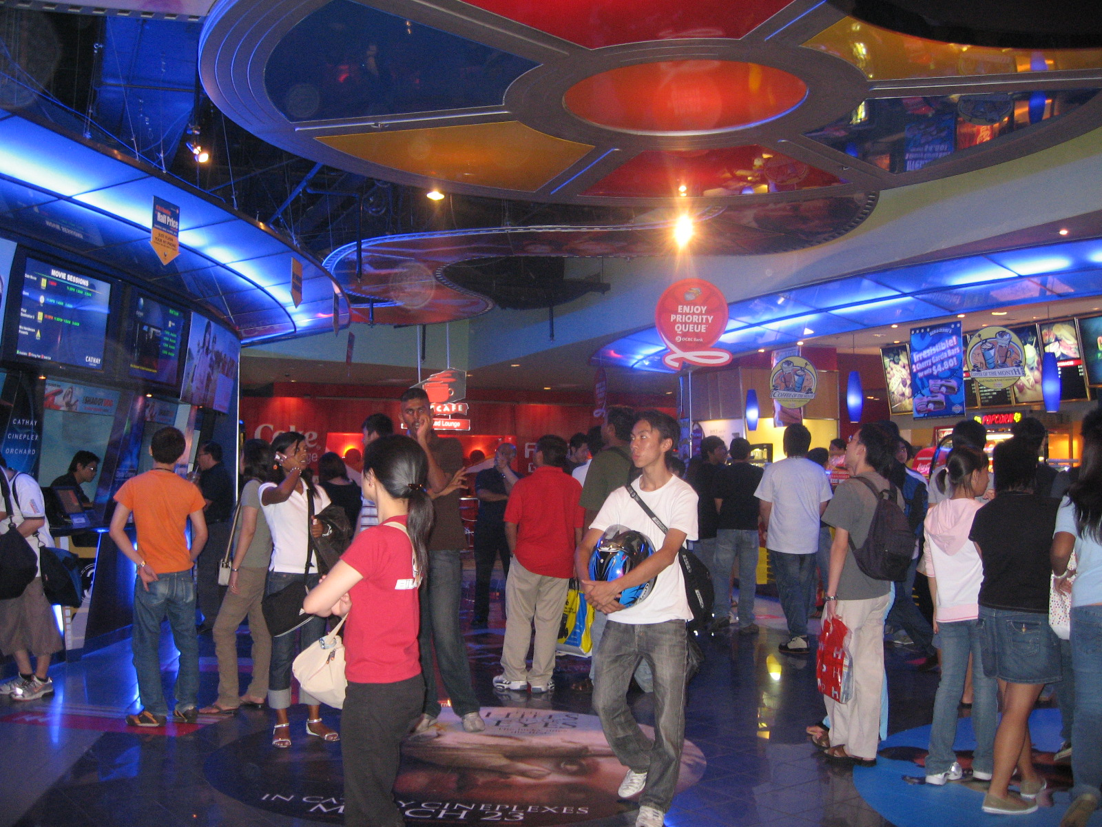 Cathay Cineplex Orchard, Cineleisure Orchard. Taken by Terence Ong in March 2006.